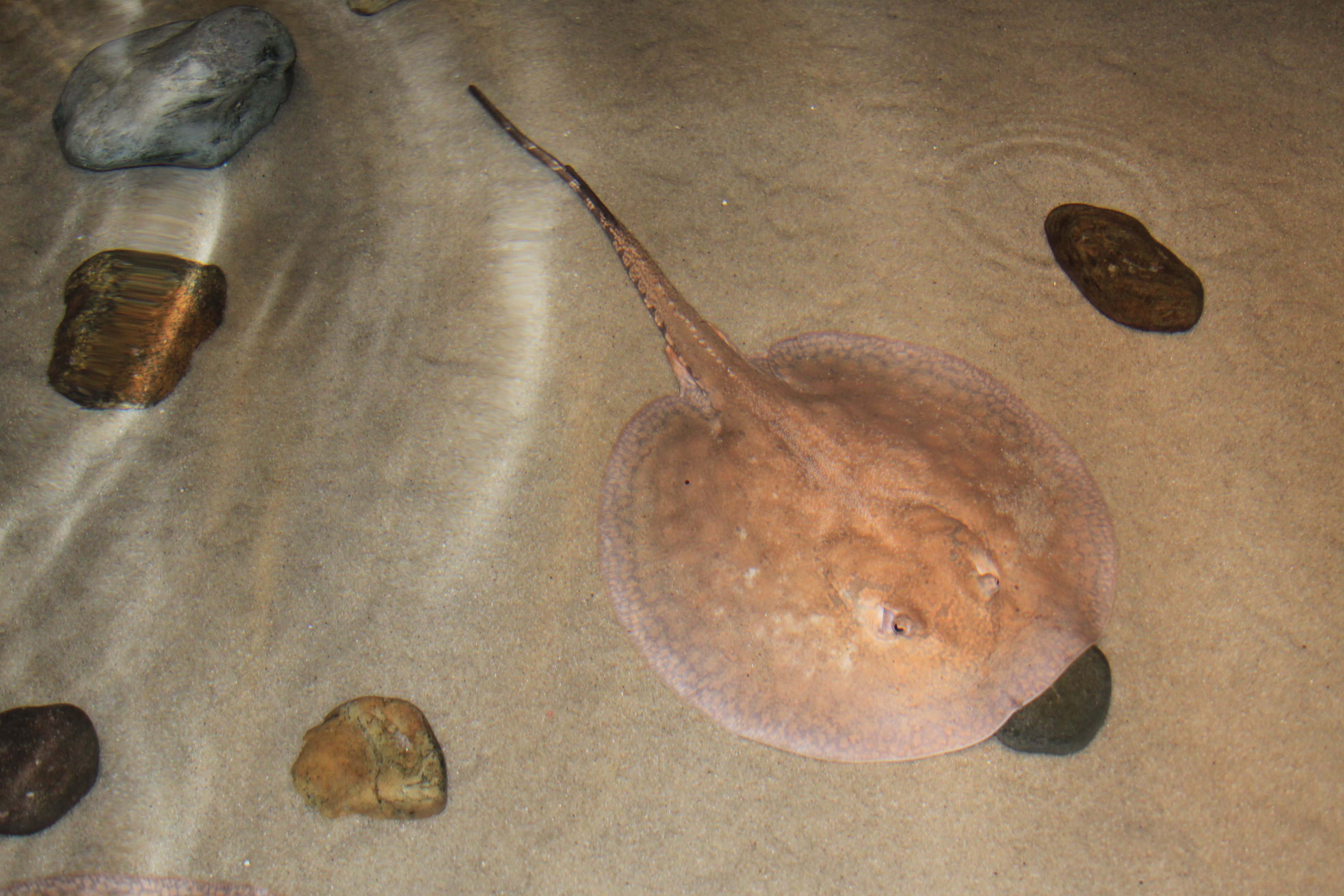 Porcupine river stingray (Potamotrygon histrix) at the Adventure Aquarium, Camden, NJ